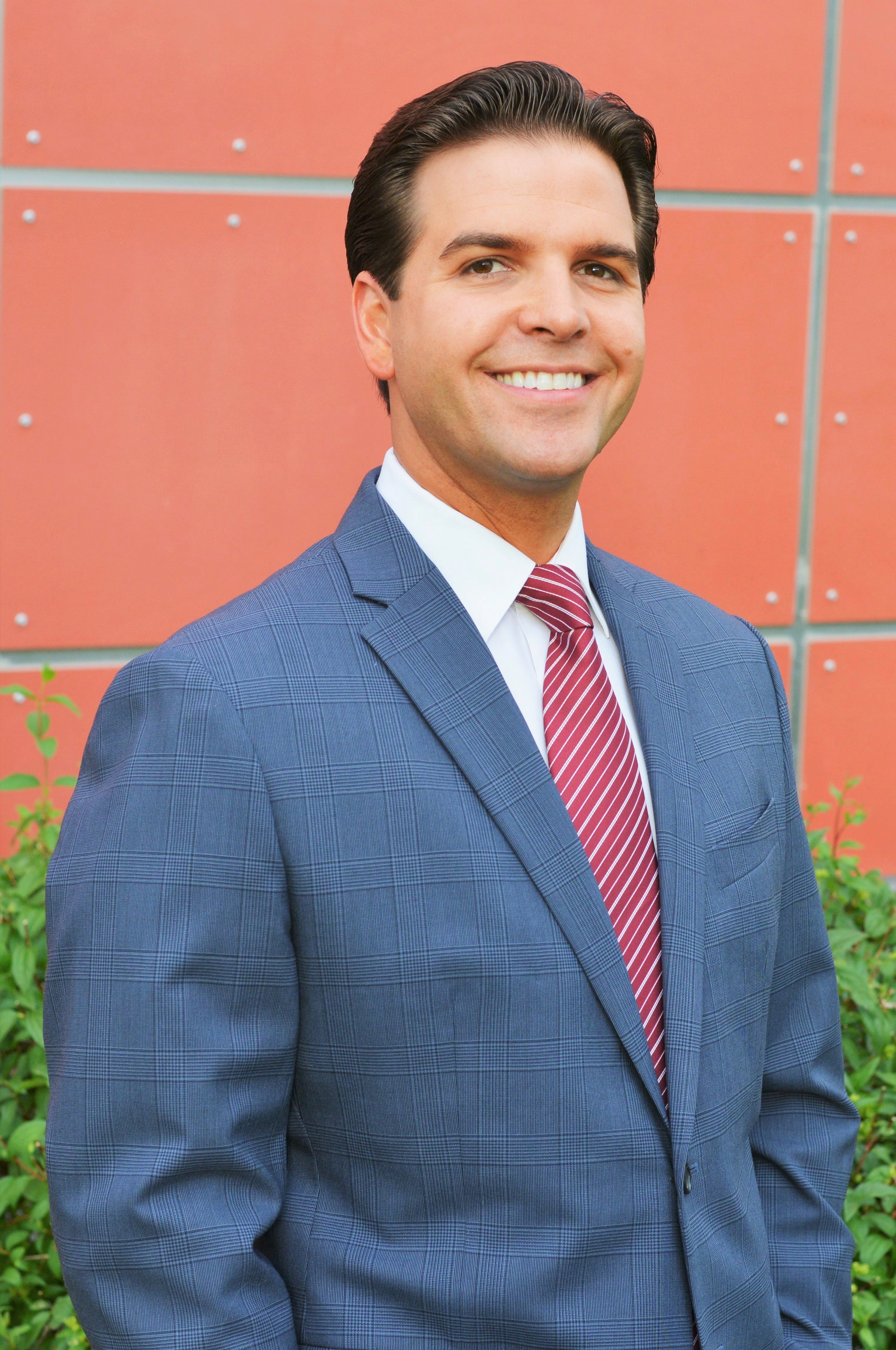 Adam Smoluk in 2019